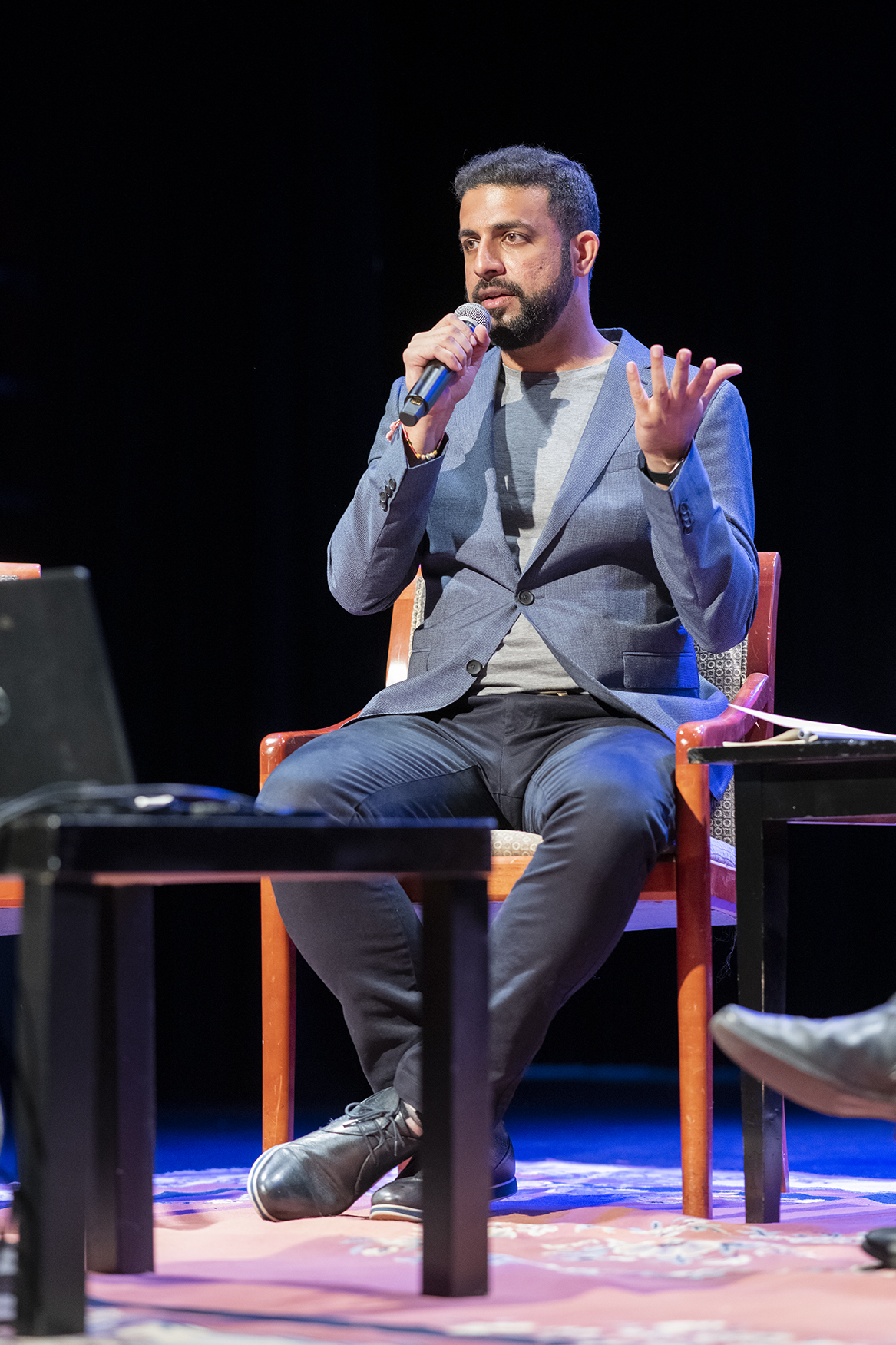 Karnad at the South Asia Literature and Arts Festival, San Jose, 2019